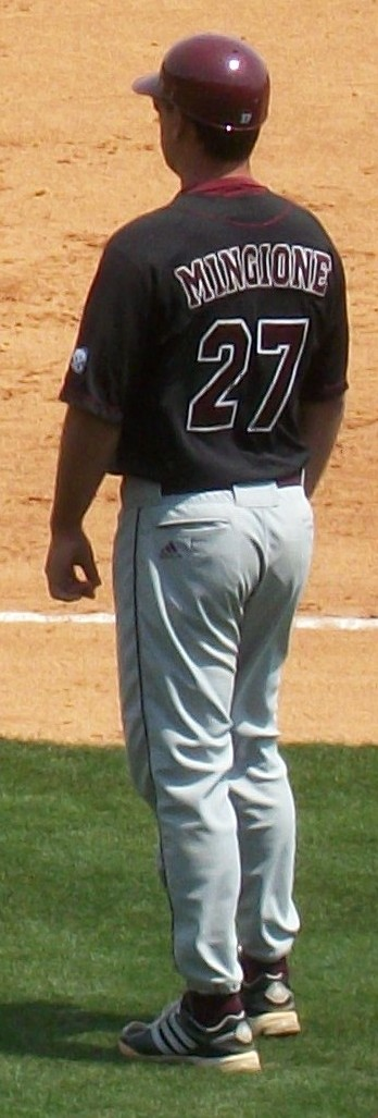 Mississippi State baseball player Ryan Collins tries to take second base against the Arkansas Razorbacks, with Dominic Ficociello and Tim Carver playing the field and Bulldogs director of baseball camps Nick Mingione looking on